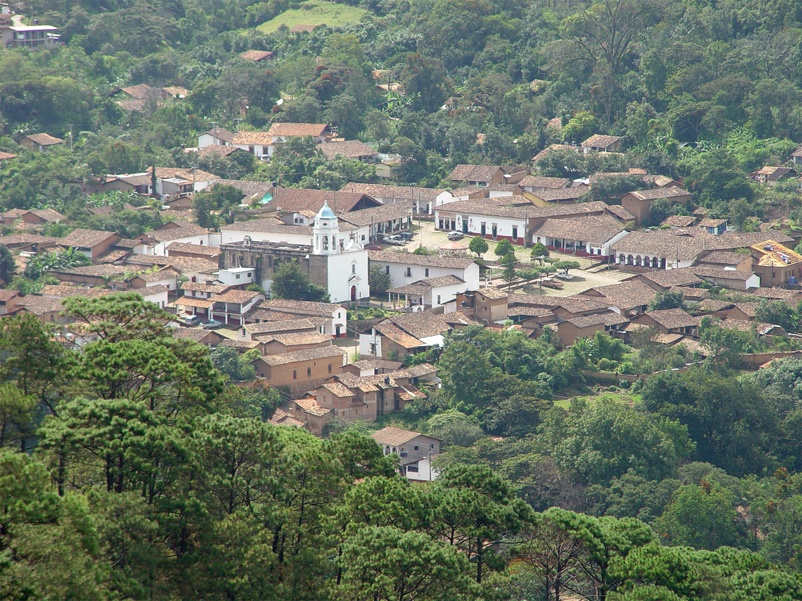 The ancient mining town of San Sebastián in western Mexico (Jalisco state).